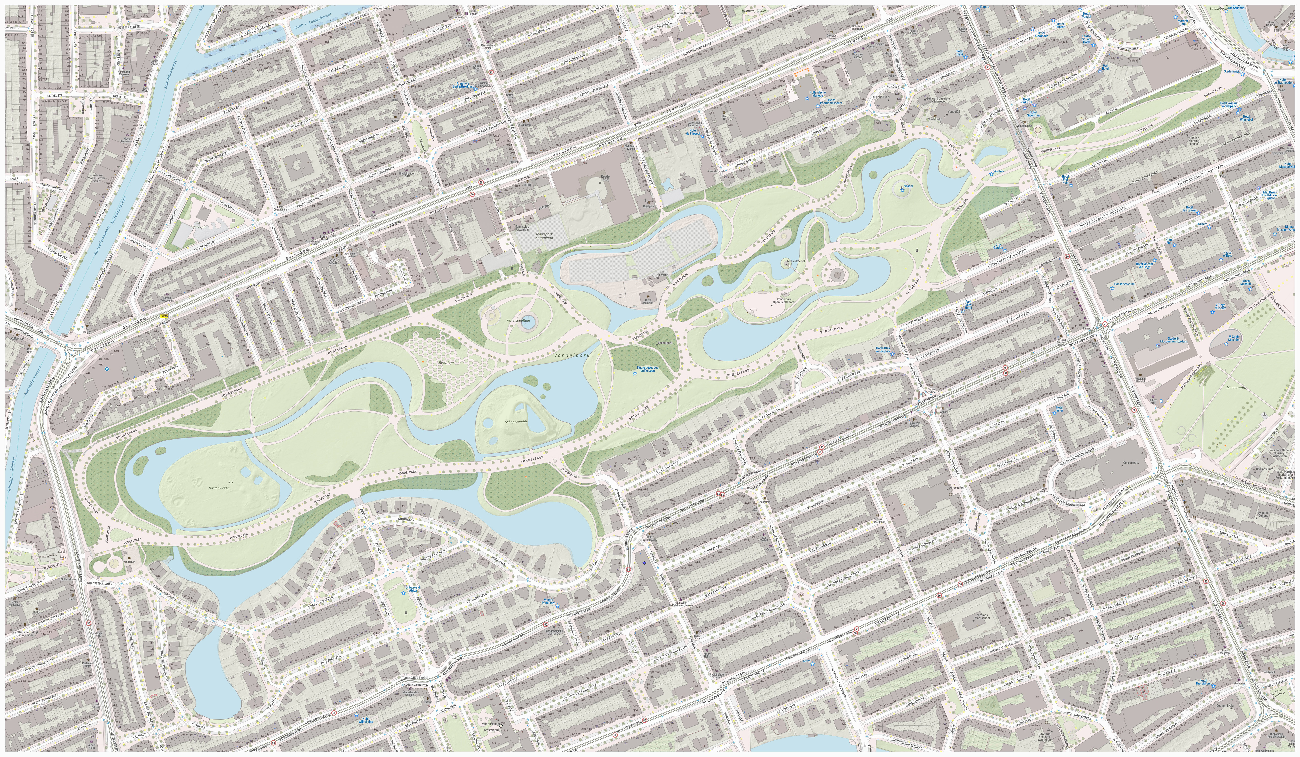 Dutch Topographic map of the Amsterdam Vondelpark, compiled by Jan-Willem van Aalst from Dutch BGT, BRT, AHN and OSM open data.